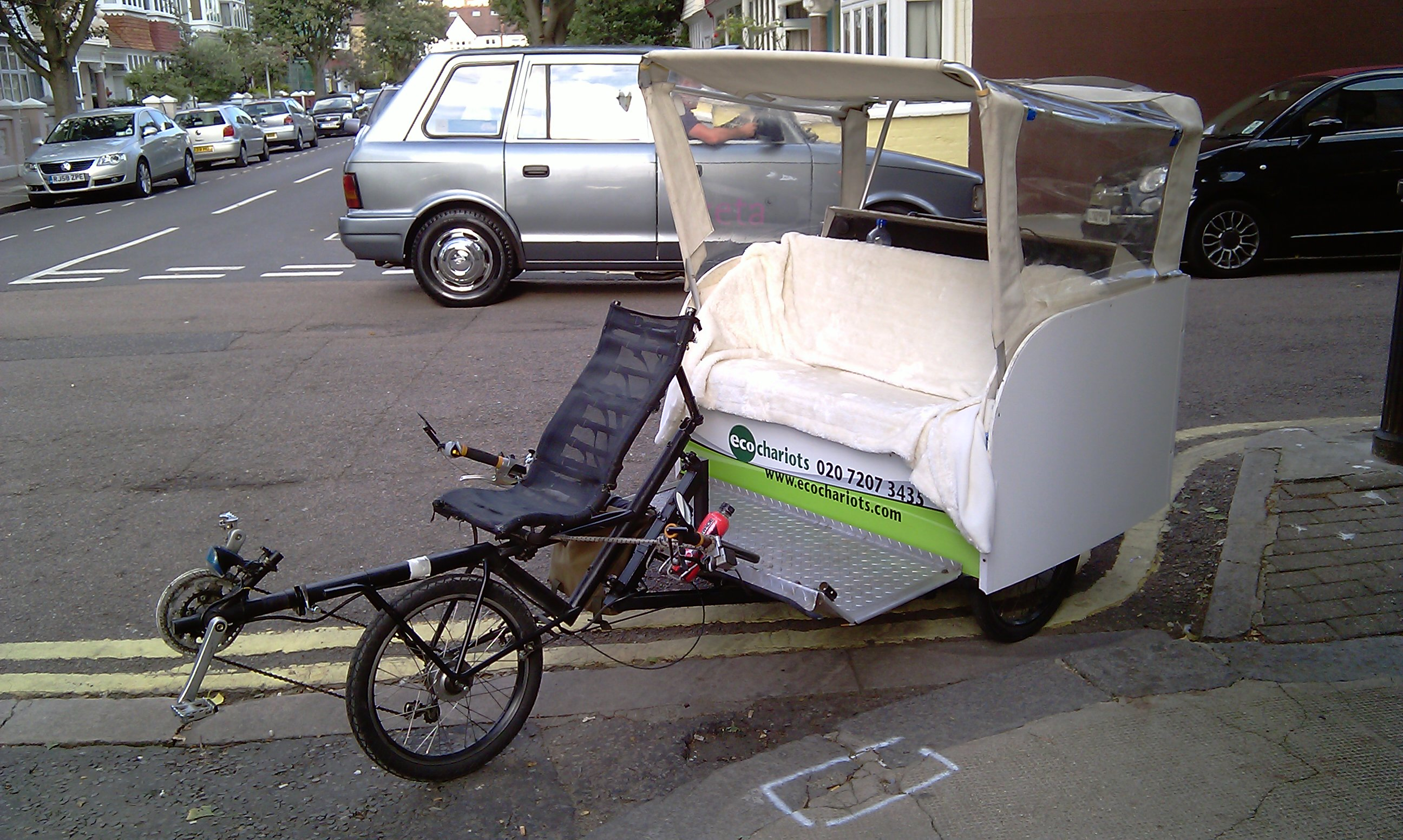 R-eco trike. a recumbent pedicab/cycletaxi with the rider up front the the passingers behind. London.